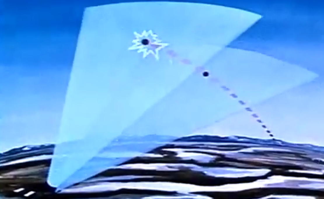 The Thule J-site BMEWS station's detection arcs of 200°[1] was a missile warning "fence" created by 4 radars' separate arcs: each AN/FPS-50 created 2 arcs (shown) centered at 3.5° and 7° elevation@BMW (exagerated in illustration.) Each arc was created by a smaller radar beam ~1° wide x 3.5° high at a "horizontal sweep rate…fast enough that a missile or satellite cannot pass through…undetected"@BMW (e.g., "Lower Fan" and "Upper Fan") --concerns in 1962 of "ERBM's (Extended Range Ballistic Missiles)" were that missile speeds after burnout would be higher than the initially-deployed Soviet ICBMs@NORAD1958B and prevent the sweeping "fans"(revisit time of 2 sec)@Skolnik from detecting the missiles. A missile within the lower arc (~1.75-5.25° elevation) would be detected at a "Lower Fan Q Point" (black dot) and then by the upper fan (black dot with jagged outline), which allowed the impact area to be estimated from "where the object crossed the two fans and the elapsed time interval between fan crossings"@BMW (displays showed the uncertain impact point as an elliptical area.) The free flight range of the missile outside the atmosphere (burnout to reentry) depends on the flight path angle and on the missile's parametric value of Q calculated from altitude and speed--additional ballistic range within the atmosphere to an estimated burst altitude was determined from computerized look-up tables in the Missile Impact Predictor.@BMW